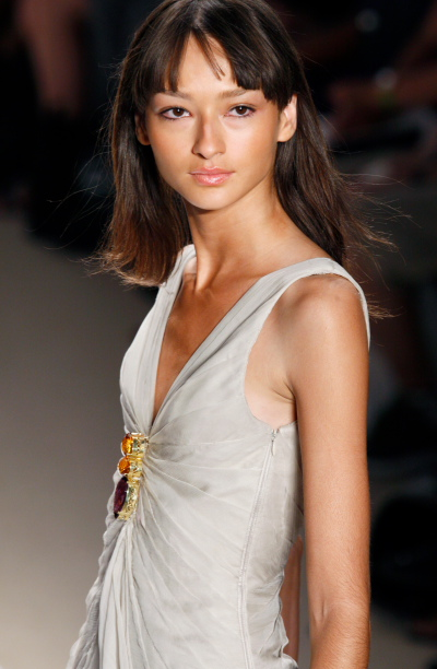 Bruna Tenório in Carlos Miele Spring 2009 Collection